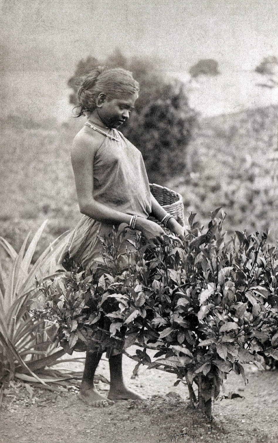 A Tamil girl picking tea in Ceylon, today's Sri Lanka, in the 1880s.